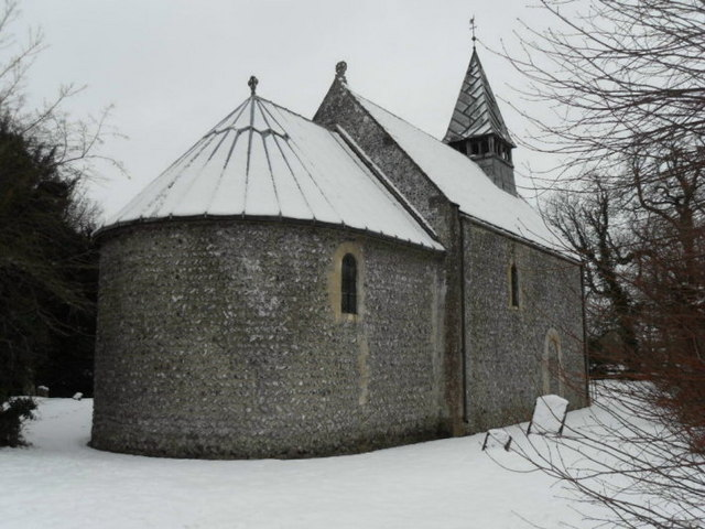 St. Peter's church A rare early Norman church, carefully restored in 1882 by J.L. Pearson